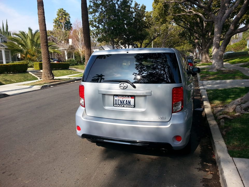 licence plate with the inscription DINKAN